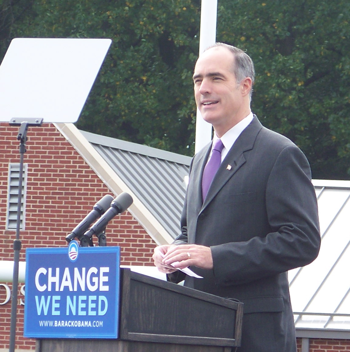 Bob Casey speaking in support of Barack Obama in Abington, PA